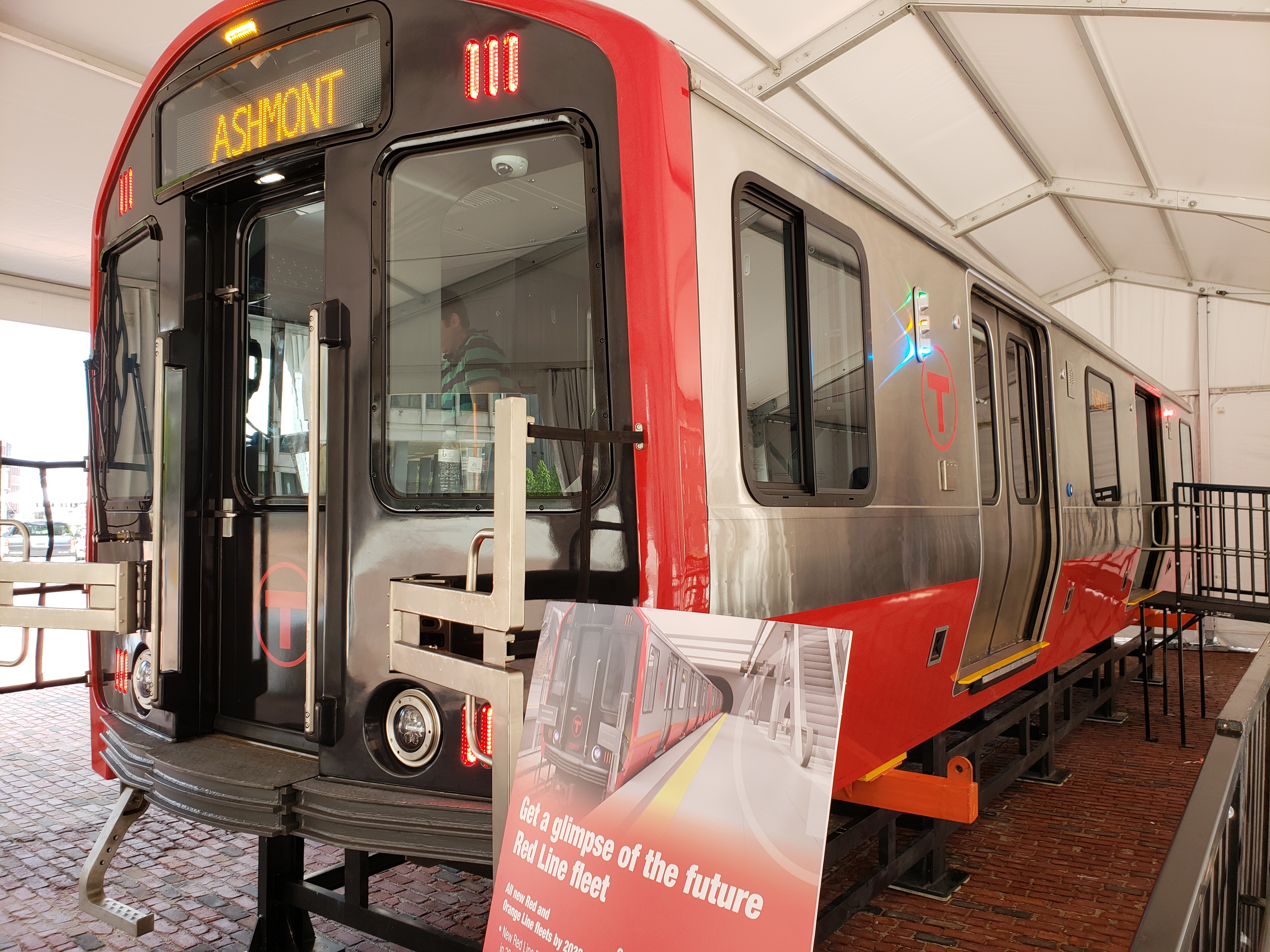 MBTA Red Line Number 4 mockup constructed by CRRC on display at City Hall Plaza in Boston, MA